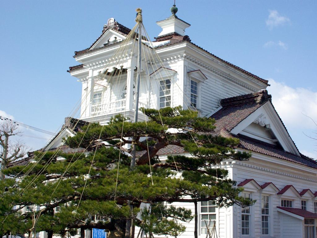 Former Tsuruoka Police Station, being preserved in Chidō Museum, Tsuruoka ↑ 「旧鶴岡警察署庁舎」 国指定文化財データベース